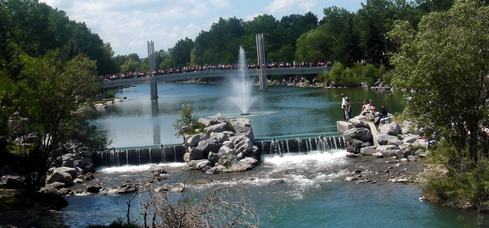 Jaipur Bridge in Prince's Island Park, Calgary, Alberta, Canada